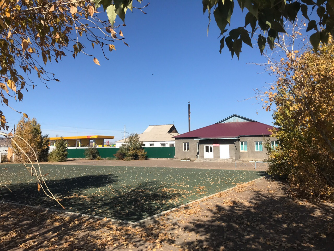 School, Soldatskiy. Ulan-Ude